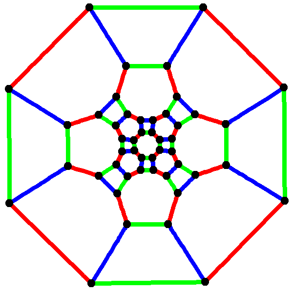 Schlegel diagram